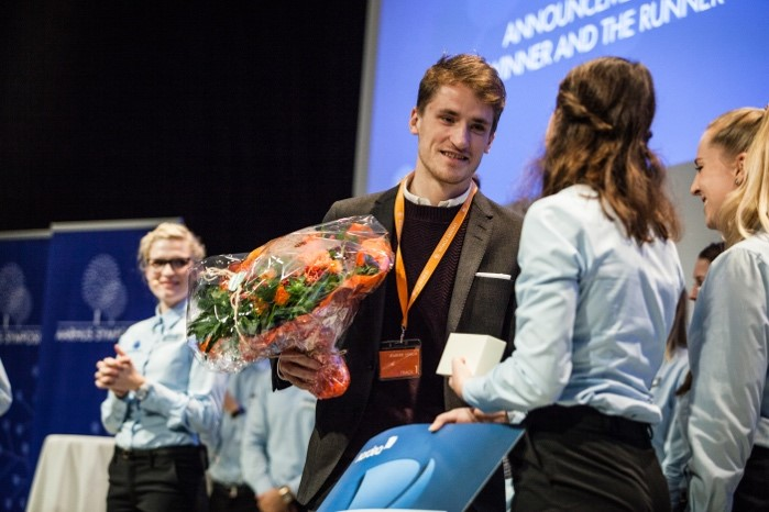 Oskar Harmsen receiving the Aarhus Symposium Award 2015